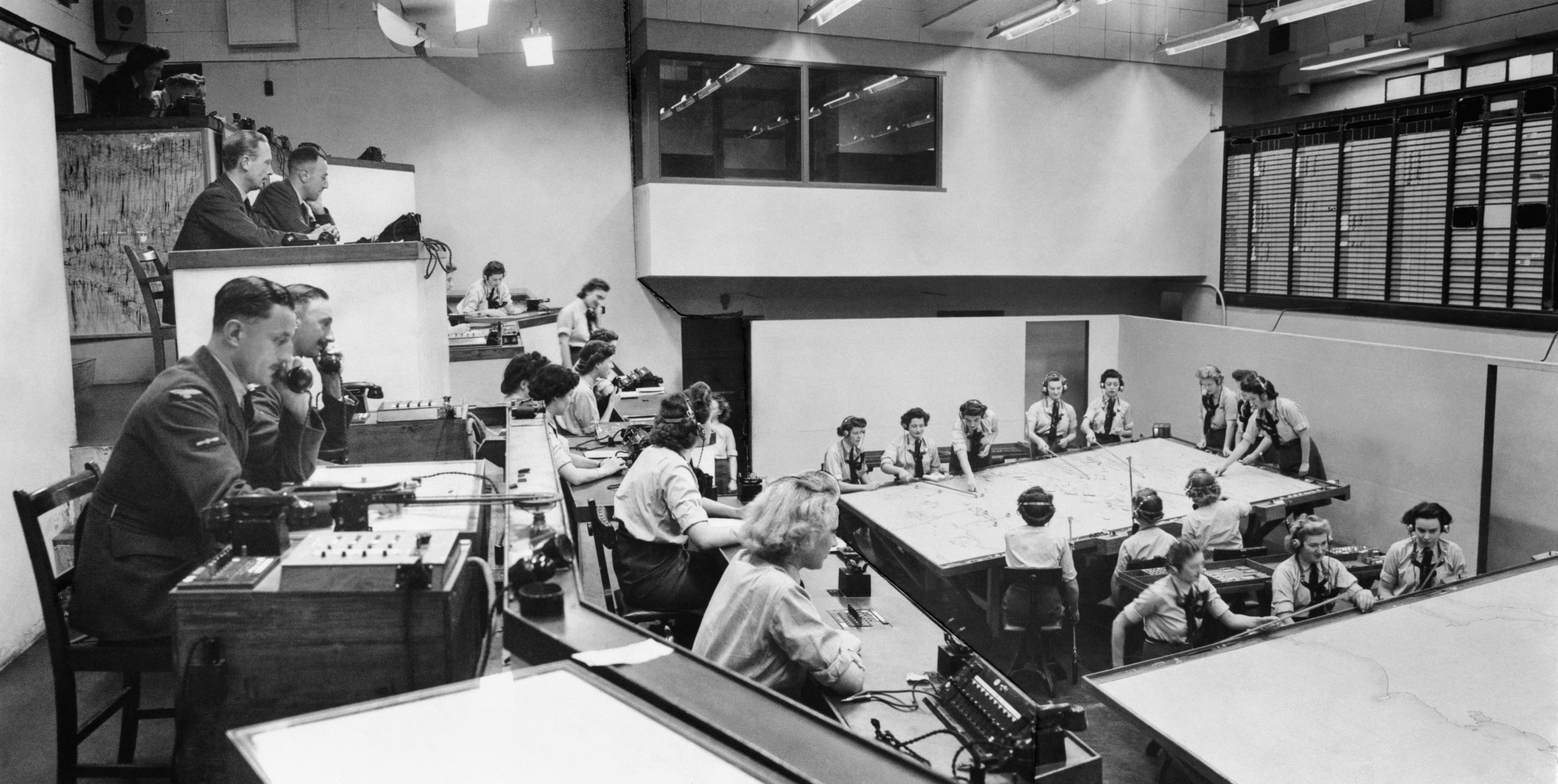 Royal Air Force- Air Defence of Great Britain (adgb), 1943-1944. The interior of the No. 10 Group Operations Room at Middle Wallop, Hampshire. On the lowest level, in the lower right of the image, is the main plotting board. Here the "plotters" use roulette rakes to move wooden blocks on the map to show the position of various aircraft. They receive location reports from radar stations and observers via the "tellers" operating the telephones, roughly centred in the image. The large black-coloured board on the far left lists information such as the weather and the availability and status of various squadrons under their command. The men on the left of the image use the information on the map and these boards to make command decisions, and forward them via telephone to the squadrons.